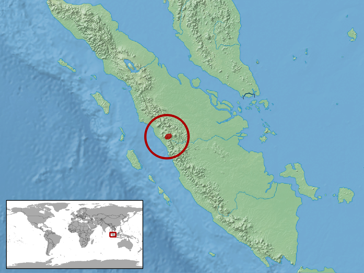 geographic distribution of Ophisaurus wegneri (Native: Indonesia (Sumatera))